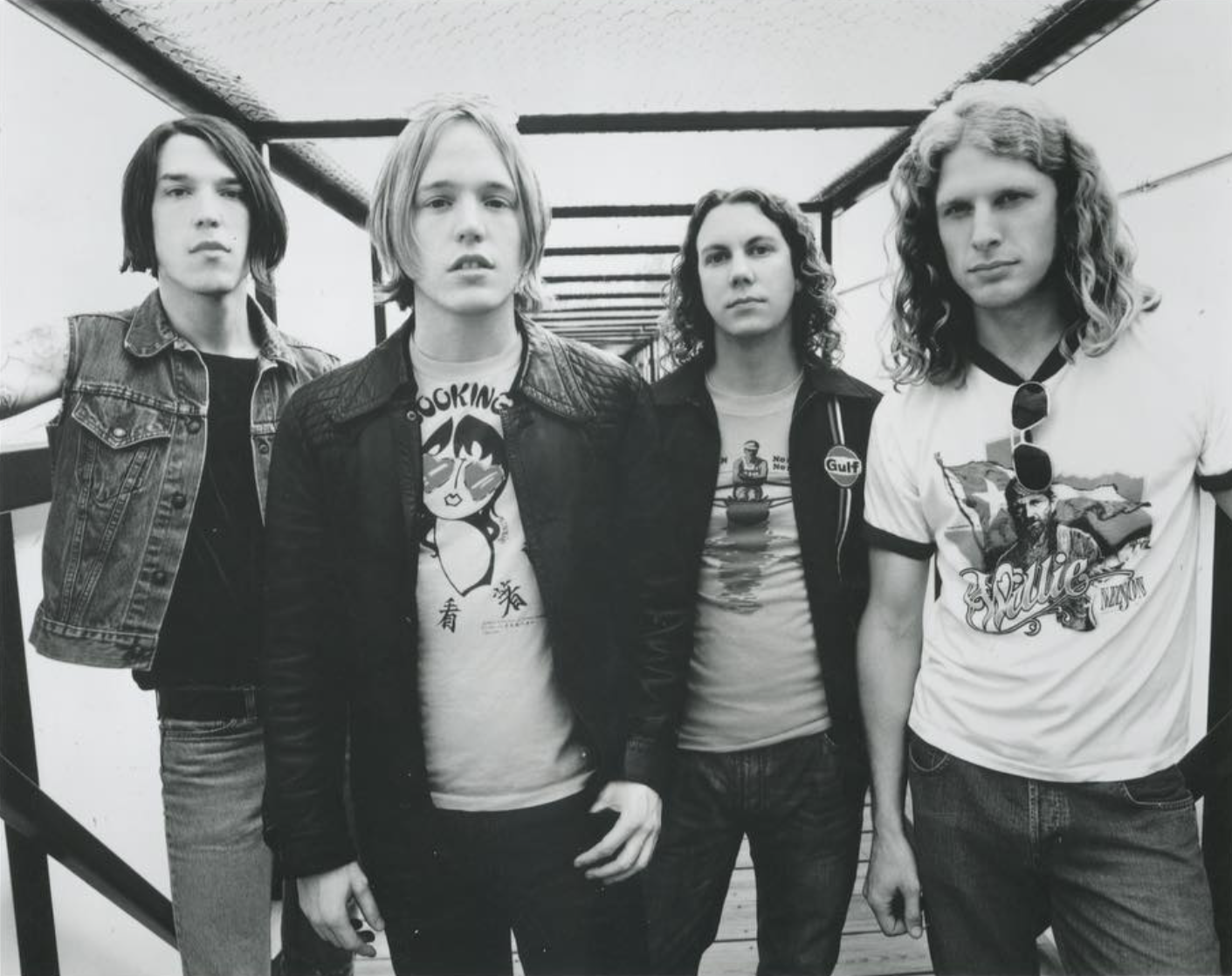 American rock band Injected. Bridge over the front straight, Road Atlanta. approx July 2001. Photo: Sean Murphy